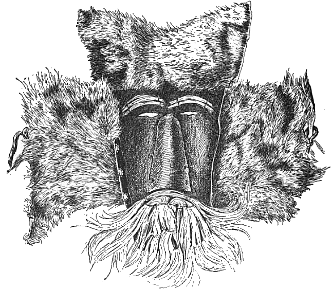 A Cherokee ceremonial dance mask made of animal skin. 29 cm or about 11 1/2" tall.